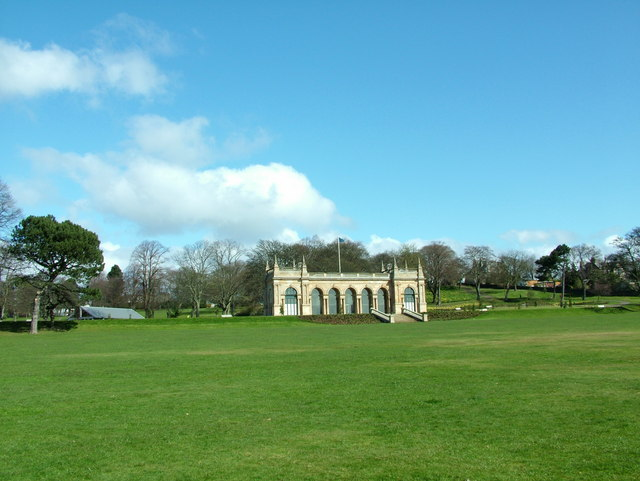 Baxter Park Pavilion Baxter Park and the Pavilion opened in 1863. The pavilion and Sir David Baxter's statue within it, had suffered from vandalism, however, the building has now been cleaned and restored, and forms an impressive centrepiece to the park.